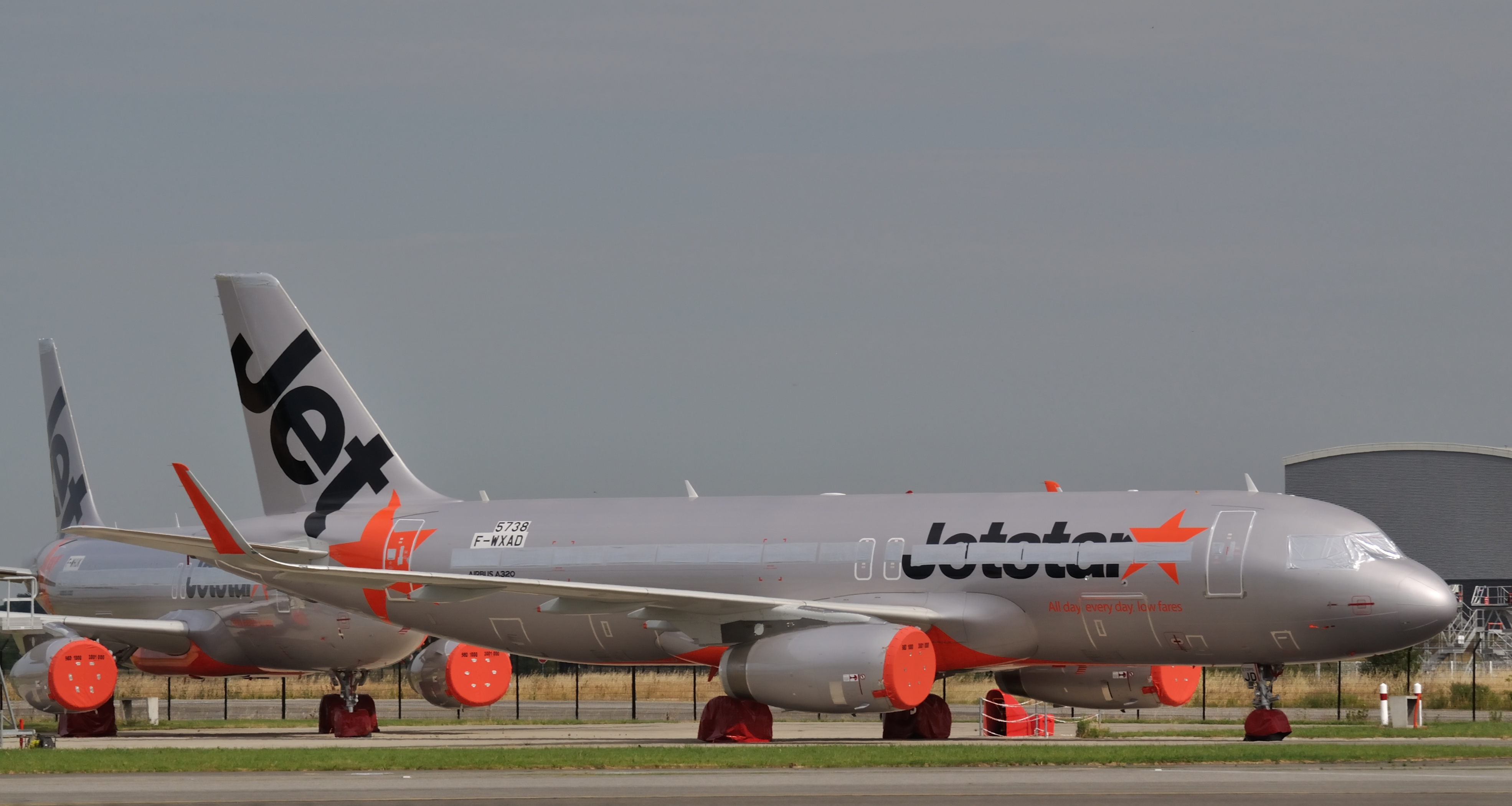 Aircraft stored near the flightline at Lagardère Plant